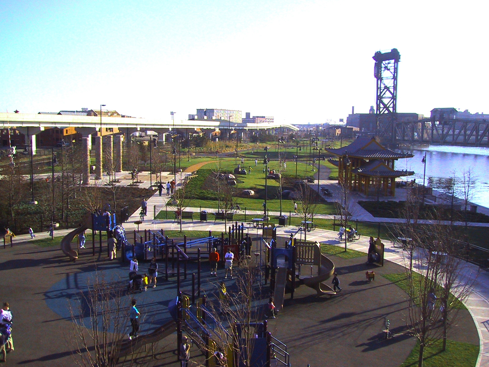 Playground at Ping Tom Memorial Park